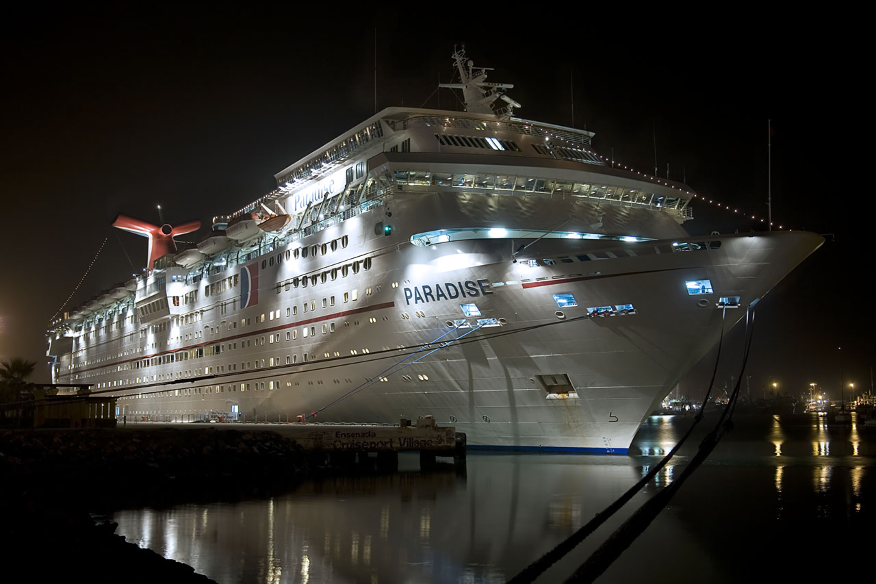 Thecruise liner docked at the Category:Port of Ensenada, Baja California state, Mexico.